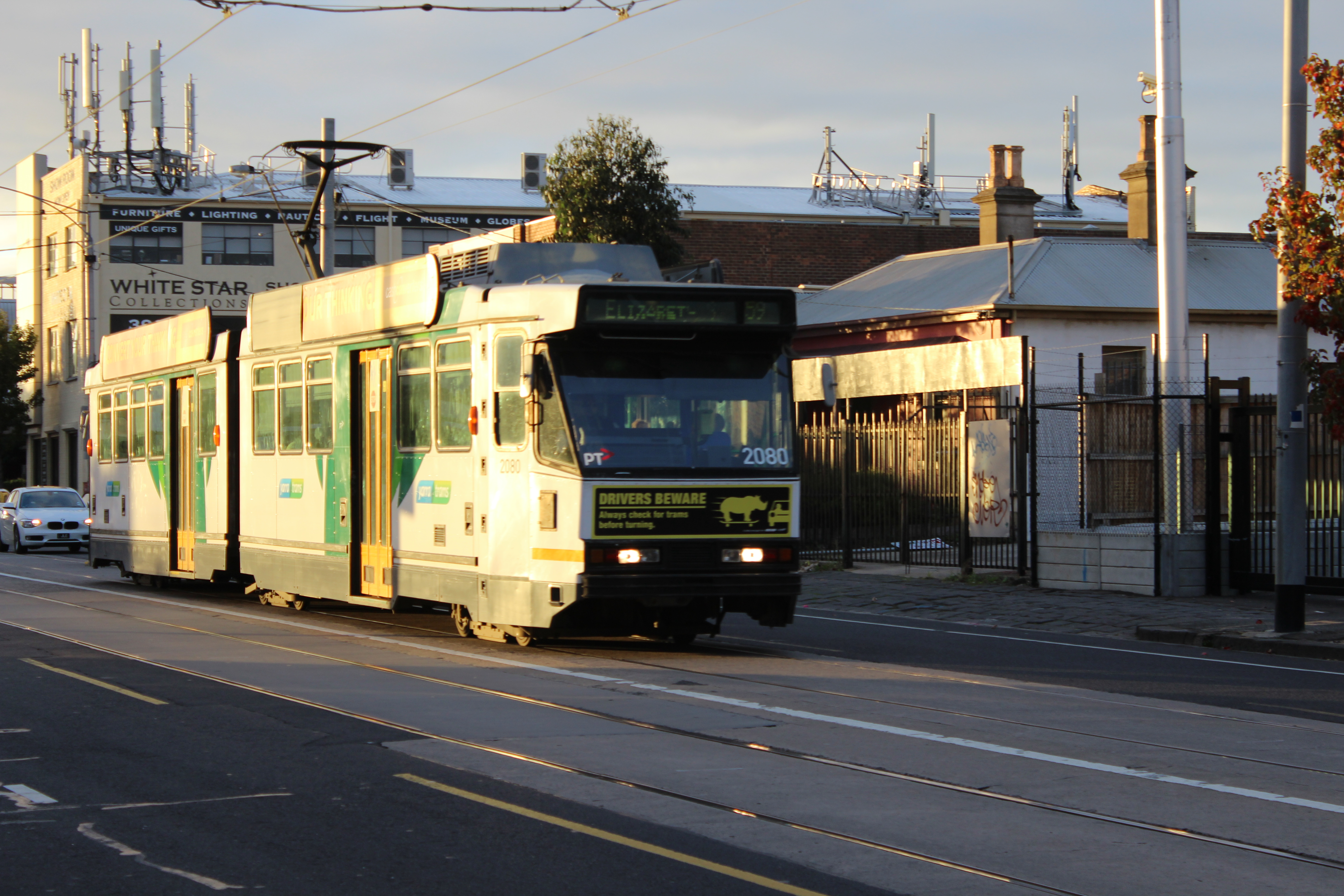 B2 2080 in Mount Alexander Road running route 59 towards the city, 2013.